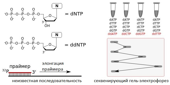 Sanger sequencing overview